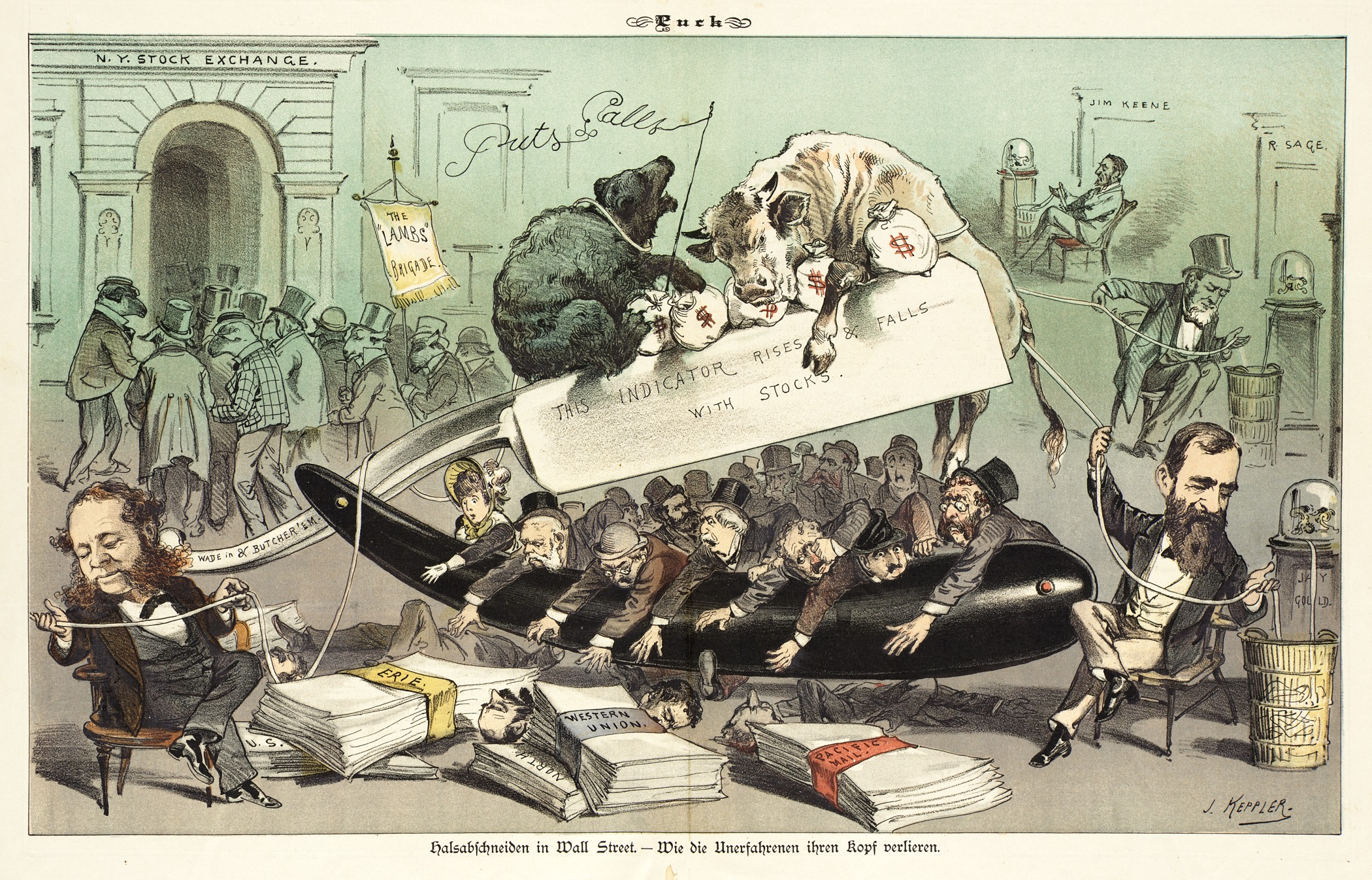 see File:Cut-throat business in Wall Street. How the inexperienced lose their heads LCCN2012647282.jpg United States, 1881 Prints; lithographs Color lithograph Gift of Mrs. Irene Salinger in memory of her father, Adolph Stern (54.70.29.20) Prints and Drawings